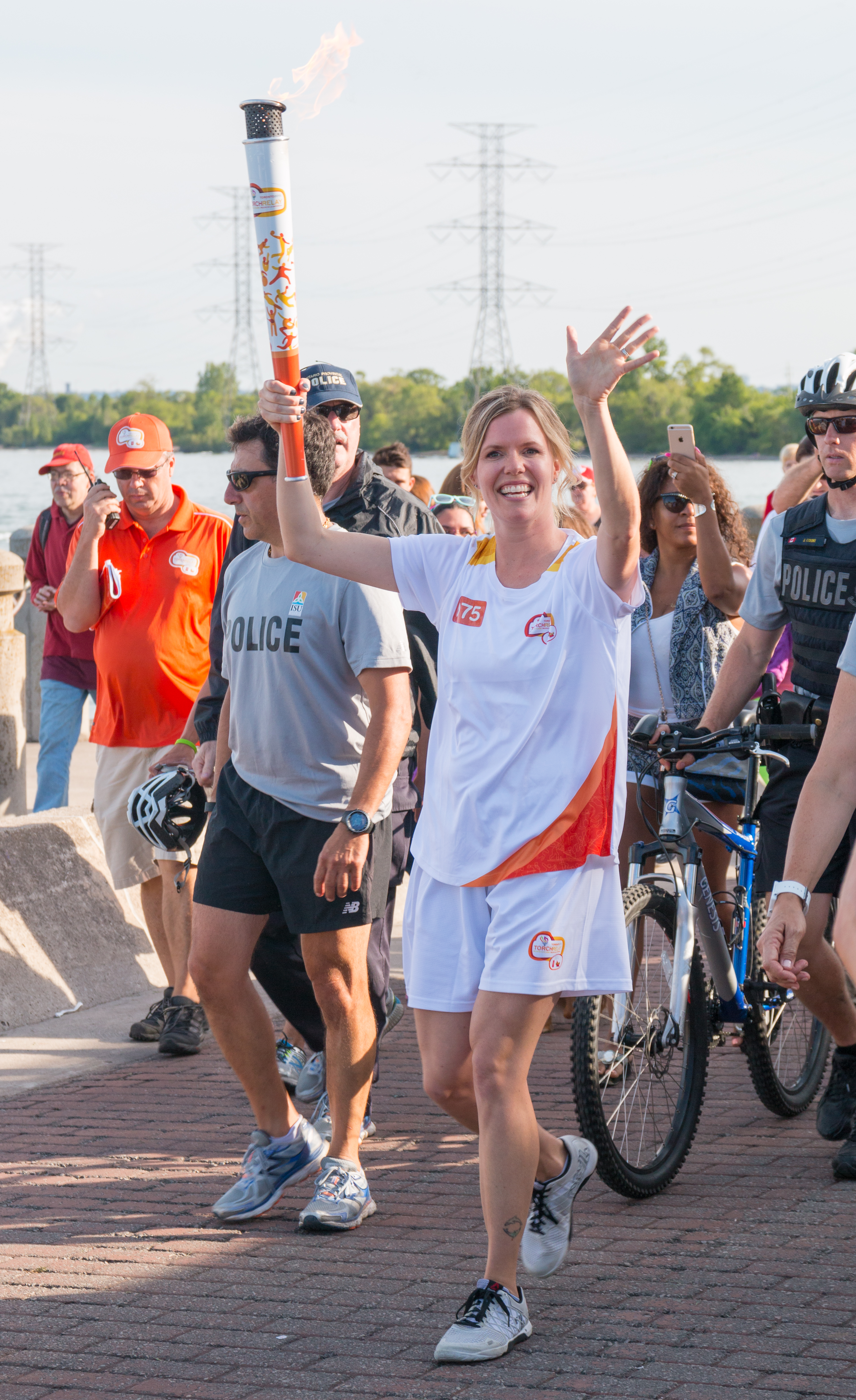 Ashley Worobec at the 2015 Burlington Sound of Music Festival, participating as part of the 2015 Pan American torch relay